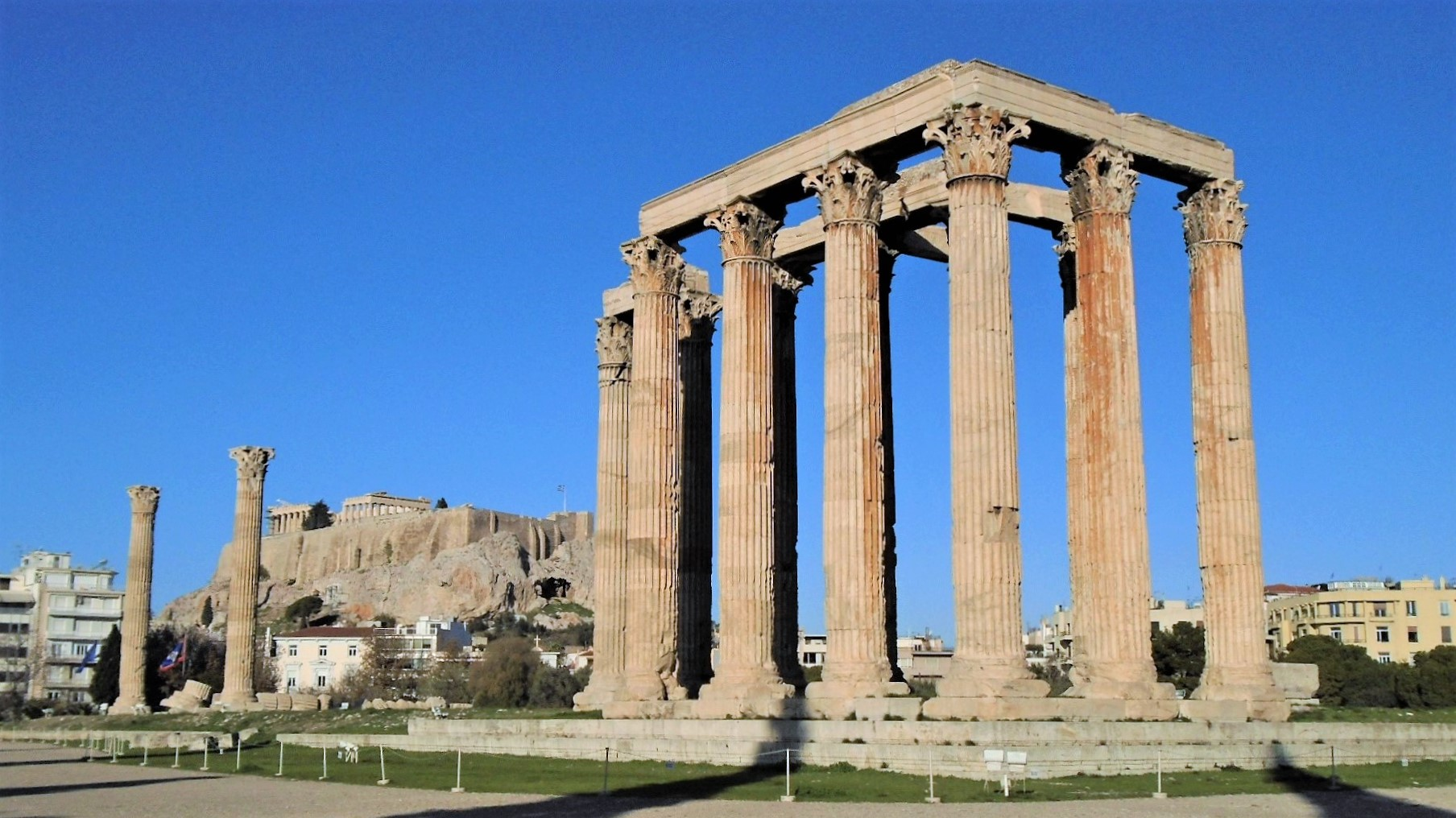 The Temple of Olympian Zeus in Athens with Acropolis visible on the background.